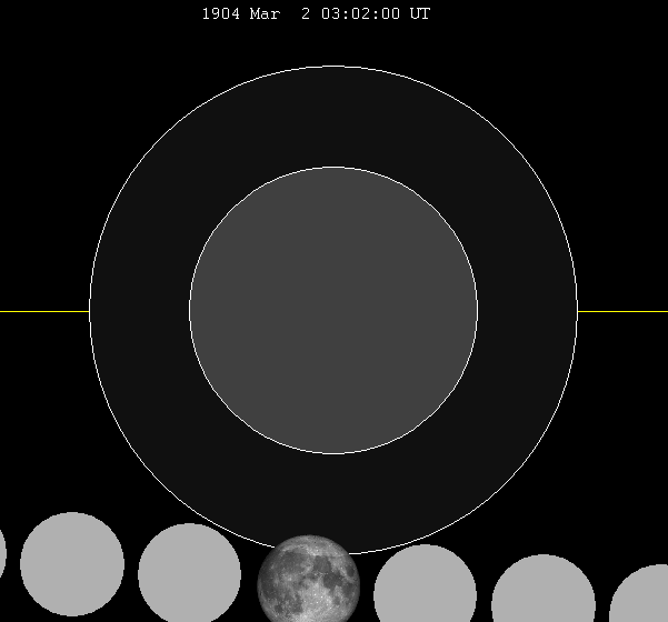 lunar eclipse chart of moon's penumbral lunar eclipse path through the earth's shadow. thumb